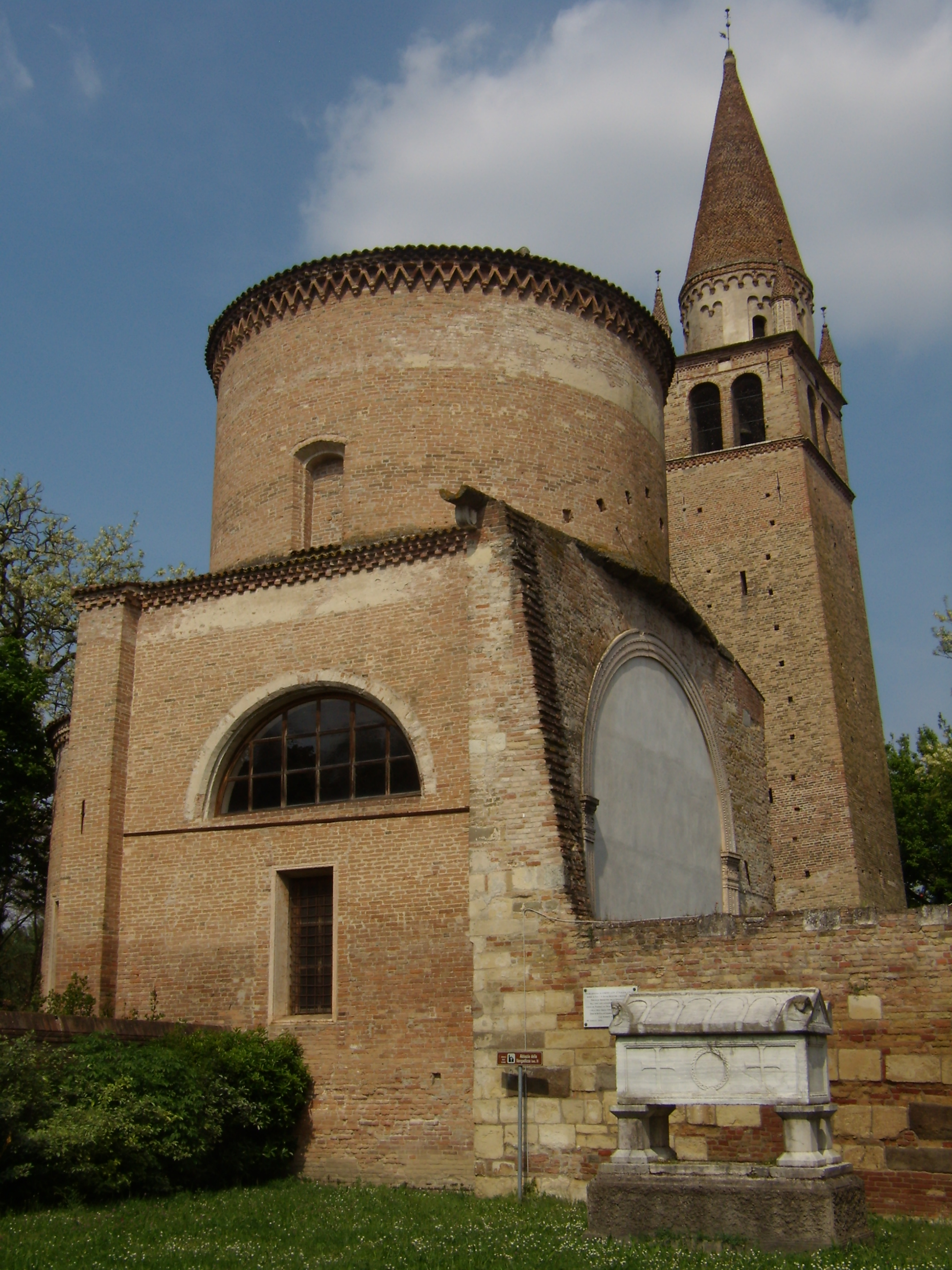 Albert Azzo II tomb - Vangadizza Abbey - Badia Polesine (Rovigo, Italy)